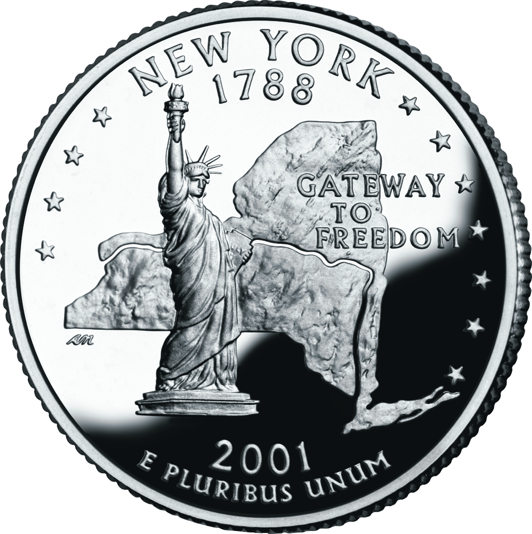 Removed background, cropped, and converted to PNG with Macromedia Fireworks. This image depicts a unit of currency issued by the United States of America. If Fraudulent use of this image is punishable under applicable counterfeiting laws. As listed by the United States Secret Service at money illustrations, the Counterfeit Detection Act of 1992, Public Law 102-550, in Section 411 of Title 31 of the Code of Federal Regulations (31 CFR 411), permits color illustrations of U.S. currency provided:1. The illustration is of a size less than three-fourths or more than one and one-half, in linear dimension, of each part of the item illustrated;2. The illustration is one-sided; and3. All negatives, plates, positives, digitized storage medium, graphic files, magnetic medium, optical storage devices, and any other thing used in the making of the illustration that contain an image of the illustration or any part thereof are destroyed and/or deleted or erased after their final use. Certain coins contain copyrights licensed to the U.S. Mint and owned by third parties or assigned to and owned by the U.S. Mint [1]. For the United States Mint circulating coin design use policy, see [2]; for the policy on the 50 State Quarters, see [3]. Also: COM:ART #Photograph of an old coin found on the Internet